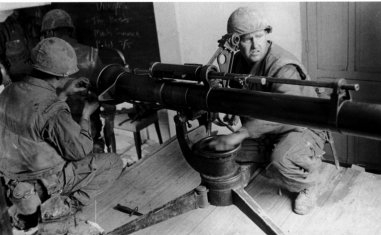 A Marine 106mm recoilless rifle team set the weapon on its tripod in one of the Hue University classrooms, to take out an enemy machine gun. According to one of the gunners, "we fired it with a lanyard where we knocked out our objective we kind of knocked out the building that the 106 was in too, but it didn't hurt the gun, once we dug it out."